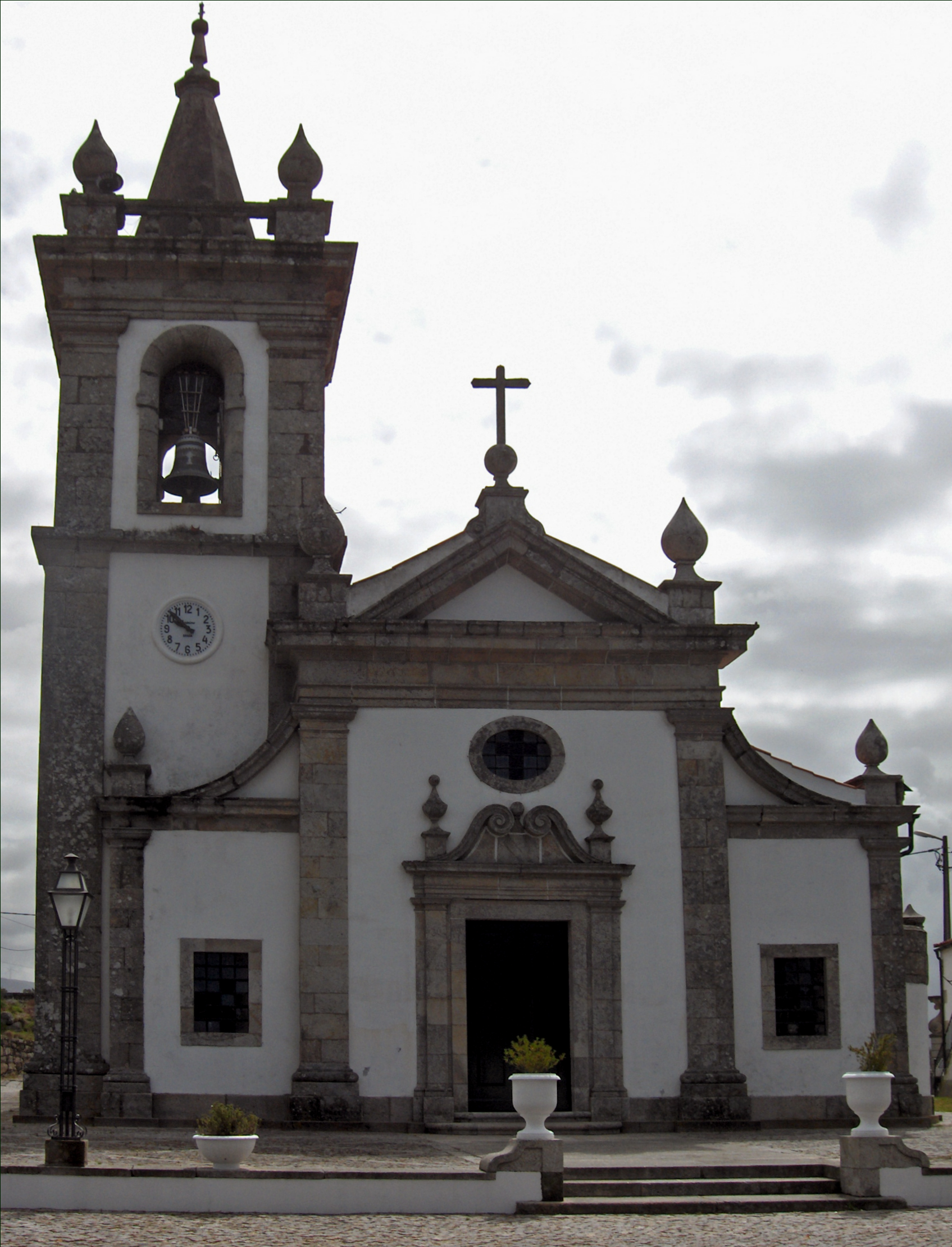 Parish church of Santa Marinha in Vila Praia de Âncora, Minho, Portugal.